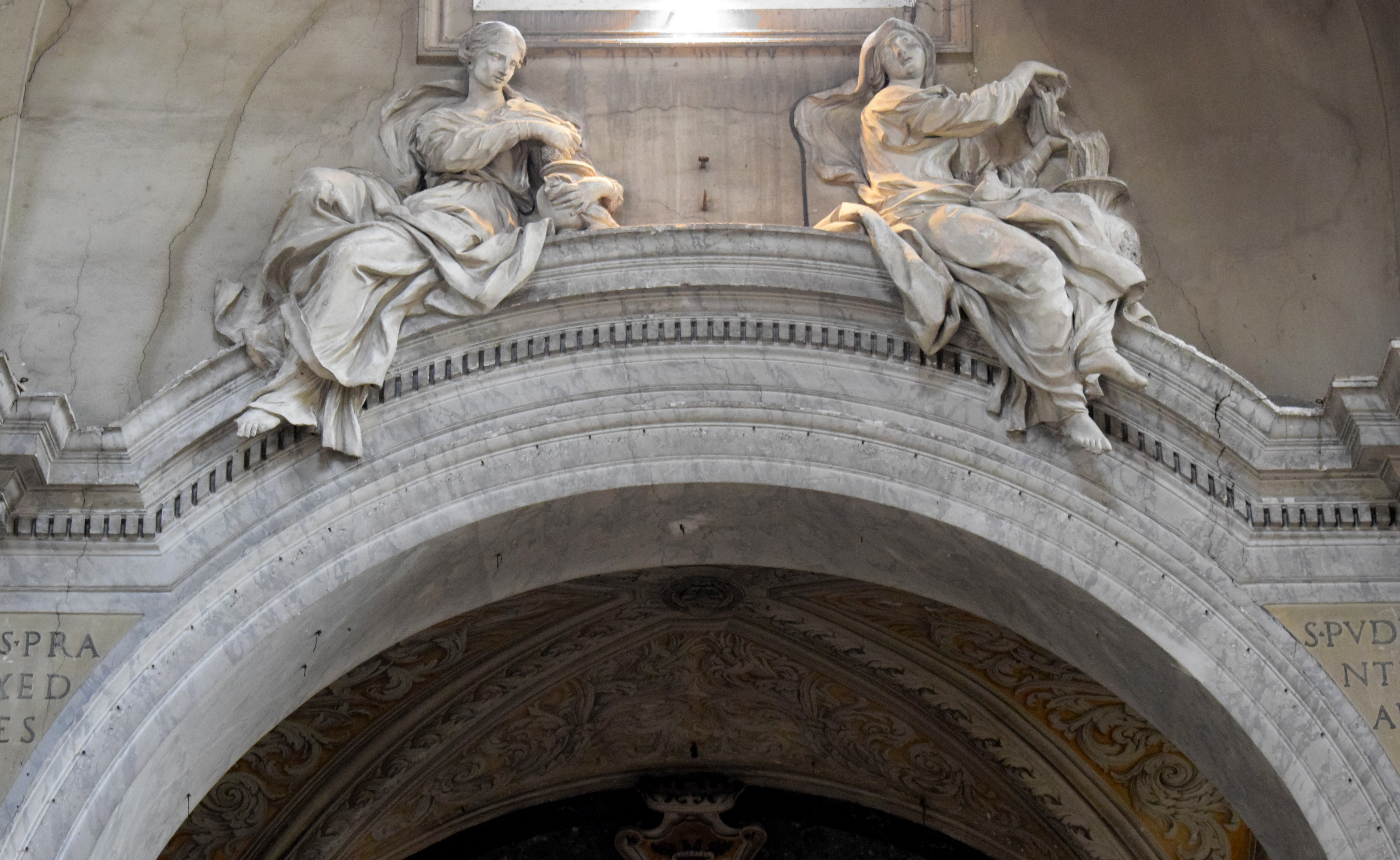 The stucco statues of Saint Praxedes and Saint Pudentiana in the nave of Santa Maria del Popolo, Rome. Sculpted by Paolo Naldini and Lazzaro Morelli in 1655.